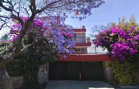 Embassy of the SR Vietnam in Mexico City